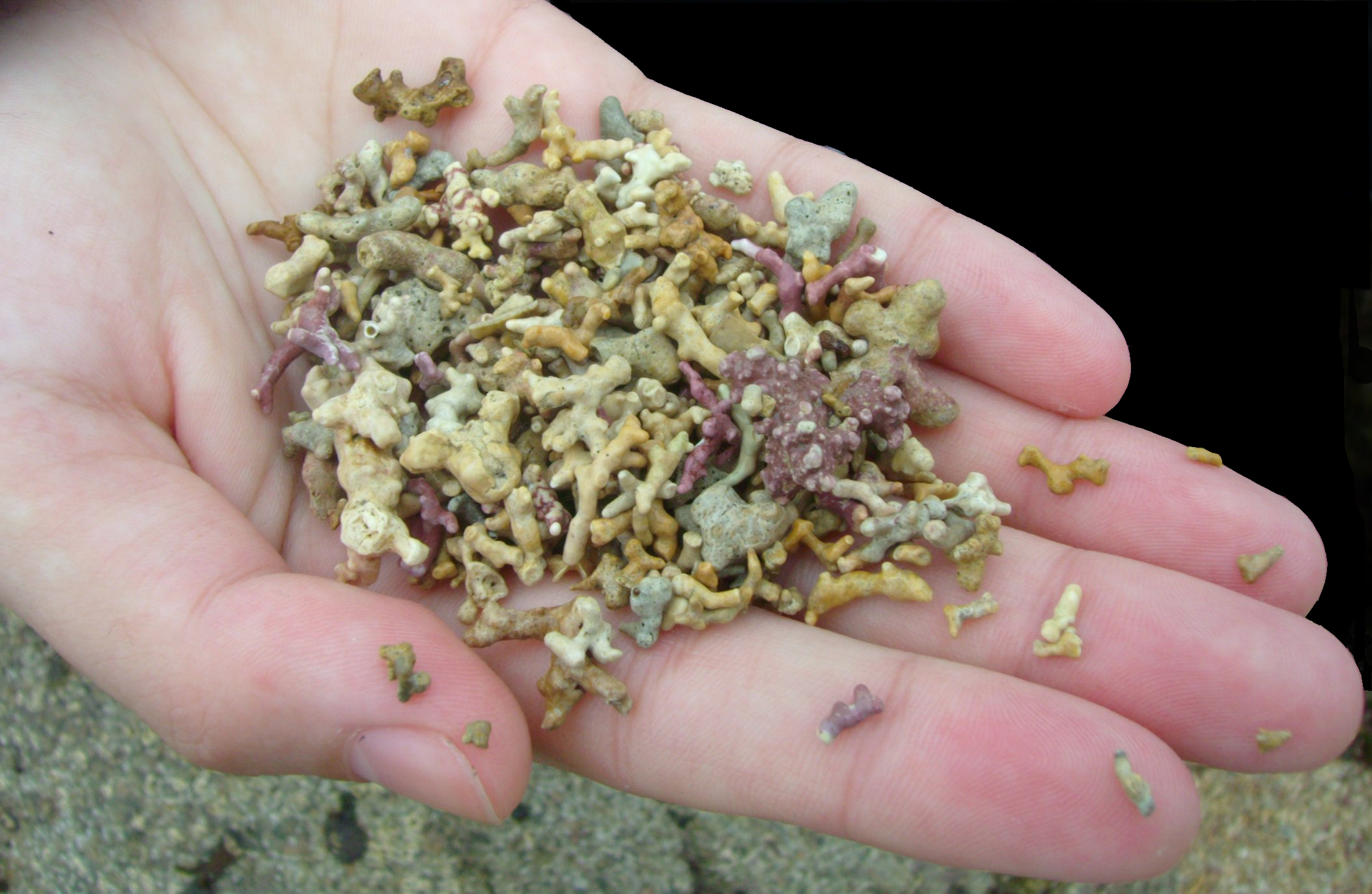 Maerl Fragments, Coral Beach (Trá an Dóilín), Carraroe, County Galway, Ireland